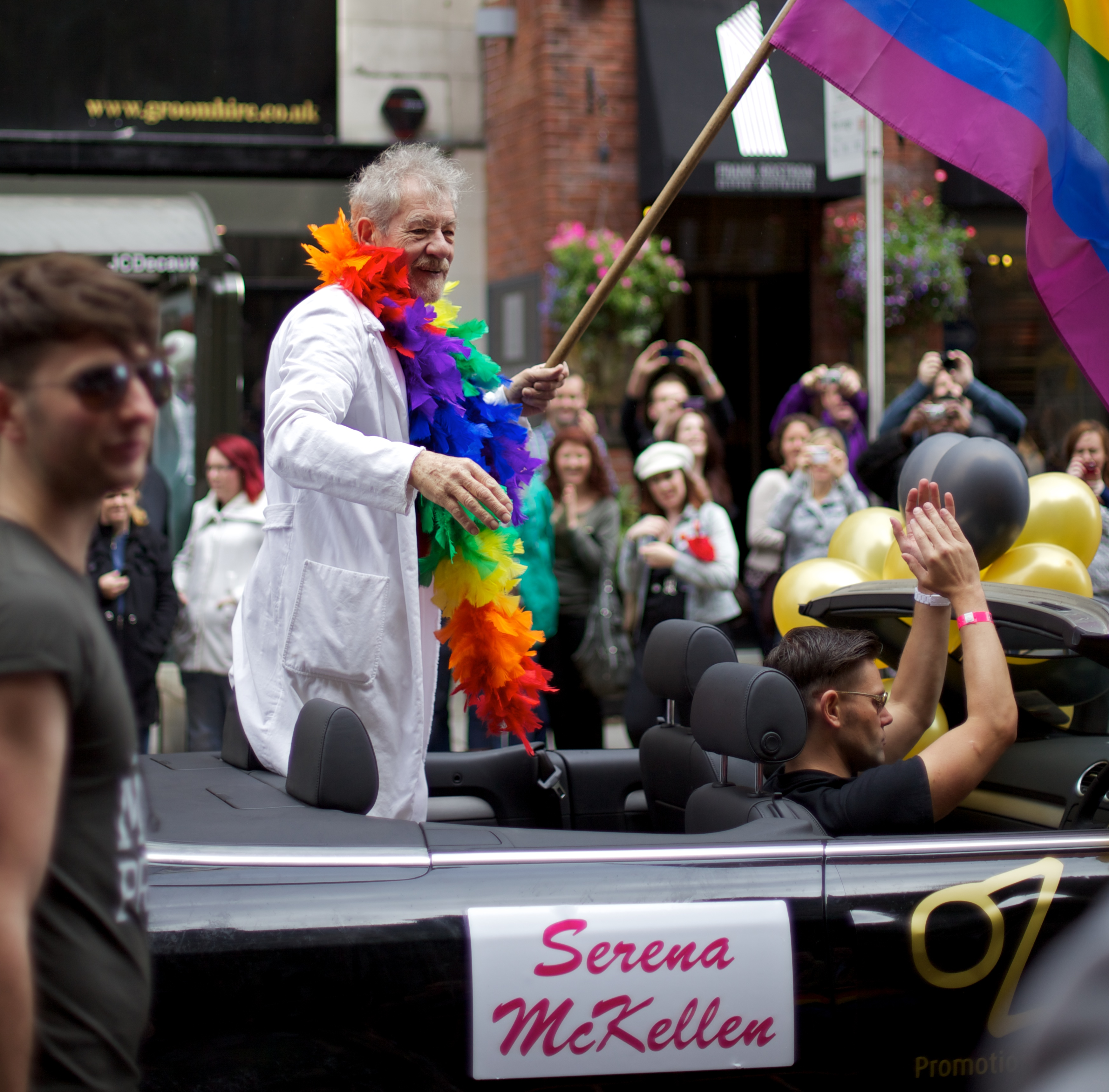 Sir Ian McKellen participating in Manchester Pride 2010